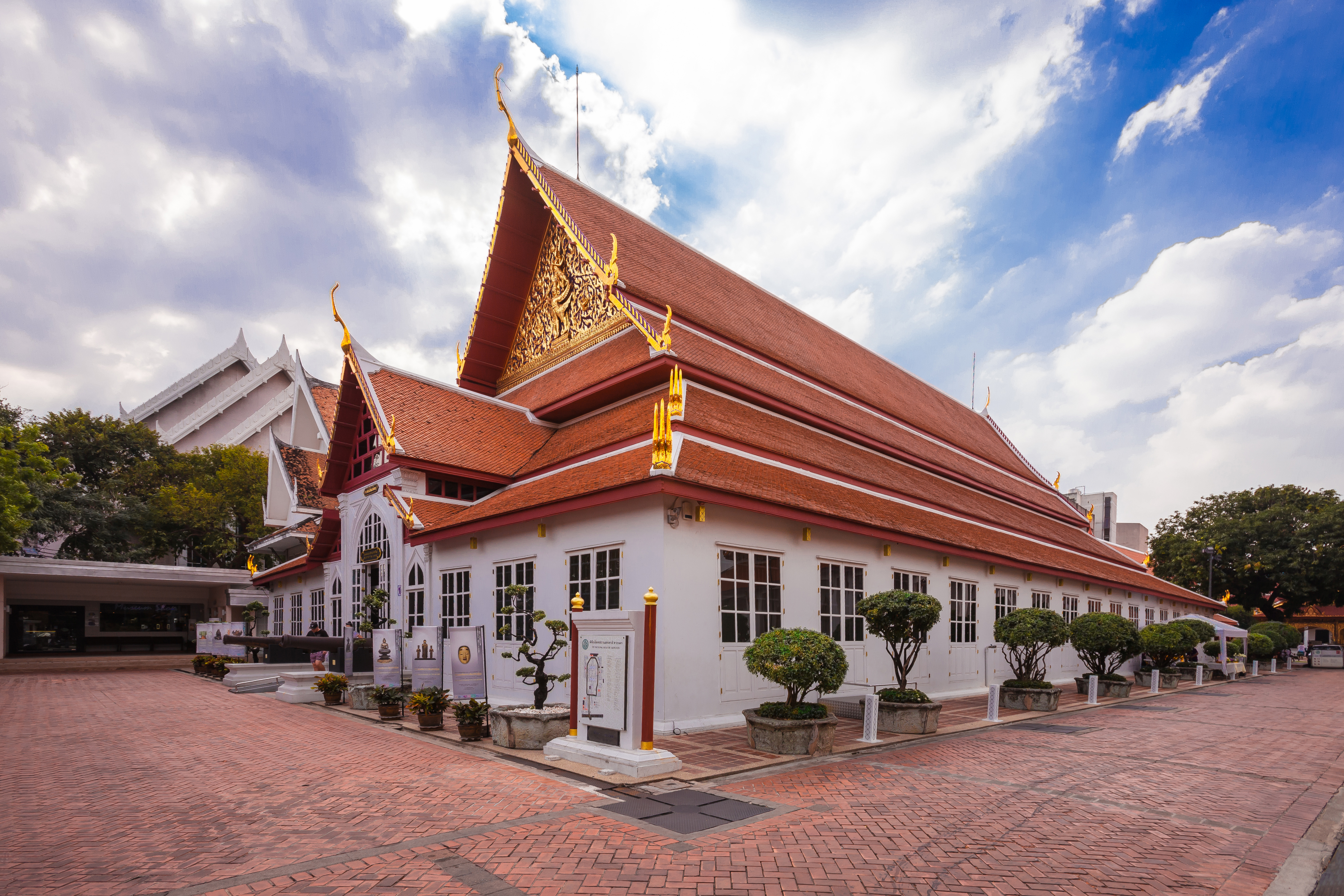 Siwamok Phiman (ศิวโมกขพิมาน), a royal hall within the Front Palace, Bangkok, Thailand.